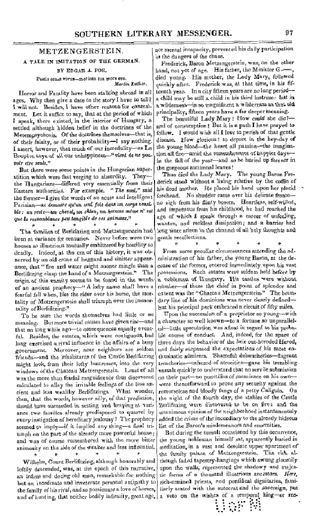 First authorized reprinting of "Metzengerstein", the first prose work by Edgar Allan Poe, as it appeared in the Southern Literary Messenger, January 1836.